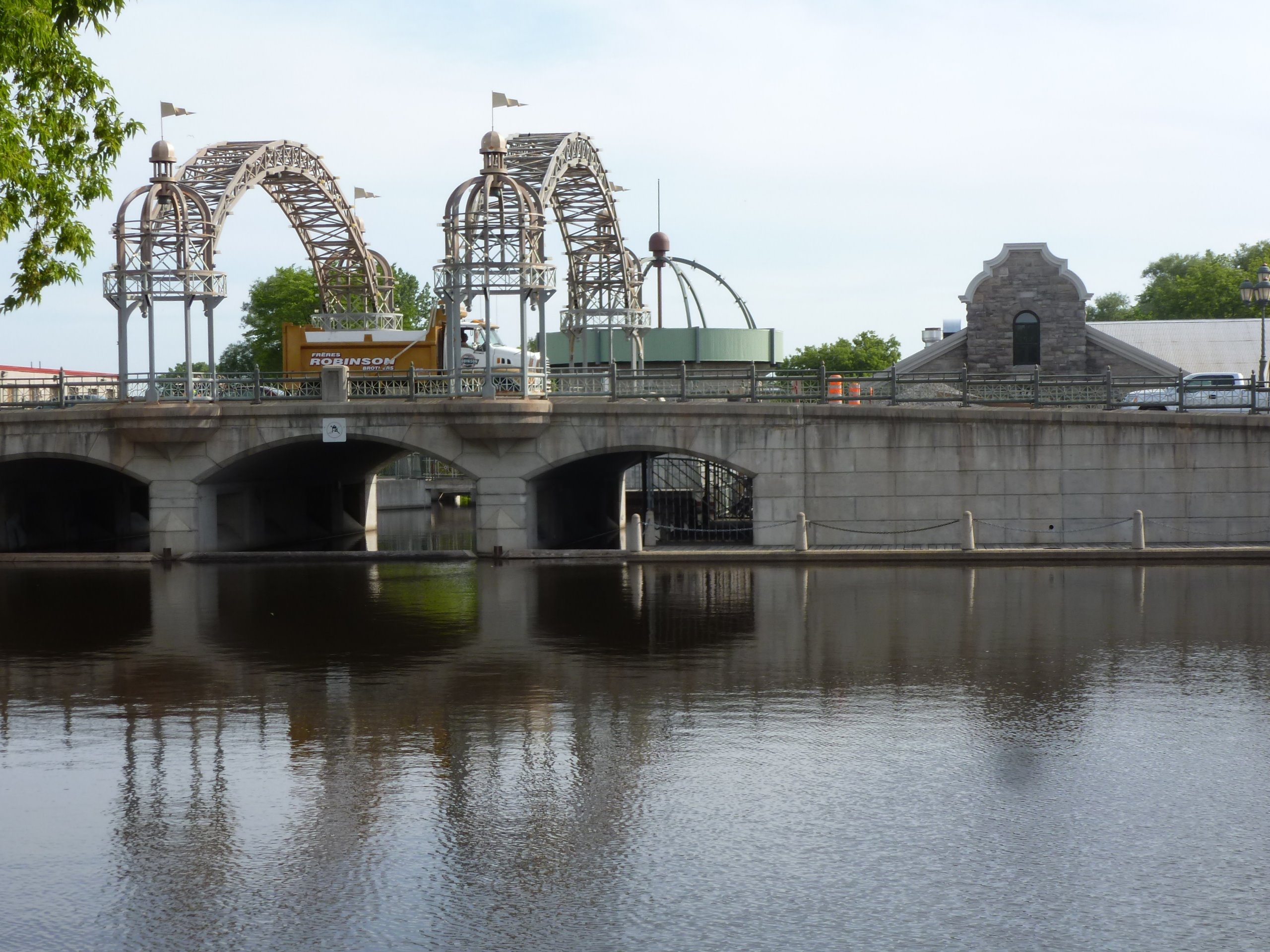 Reflected Bridge